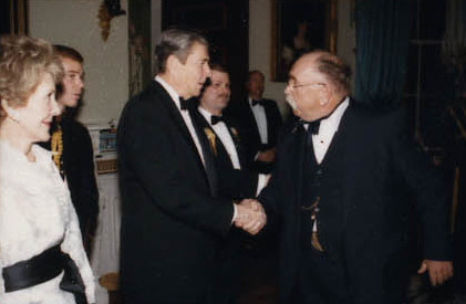 President Ronald Reagan, Nancy Reagan, John Denver, Michele Lee, Wilford Brimley (Not in all photos)